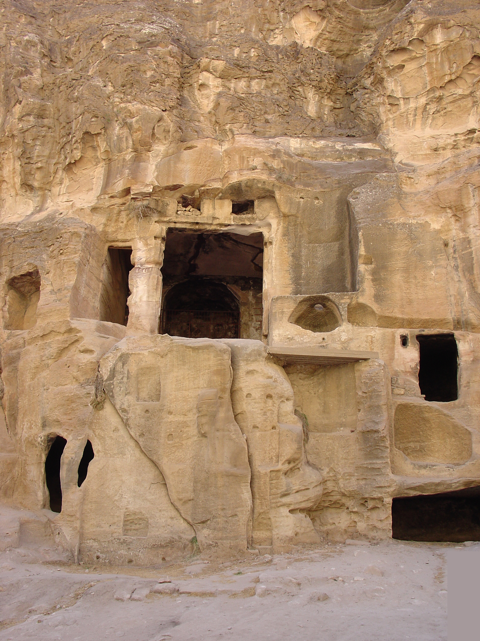 This Biclinium (#849), from the 1st century AD, contains the only surviving example of Nabataean painting. Its interior wall is protected, understandably, by a wire grid. Several baetyl niches surround the outside of the chamber.